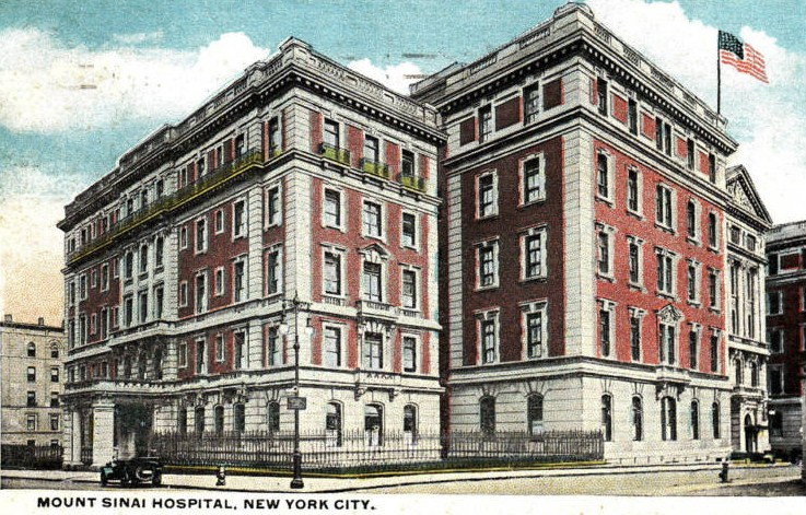 Postcard picture of Mount Sinai Hospital, New York in New York City, from a postcard sent in 1920. (Most of the postcard image's white border is cropped to avoid reproducing the eBay online "watermark" in lower right-hand corner.)